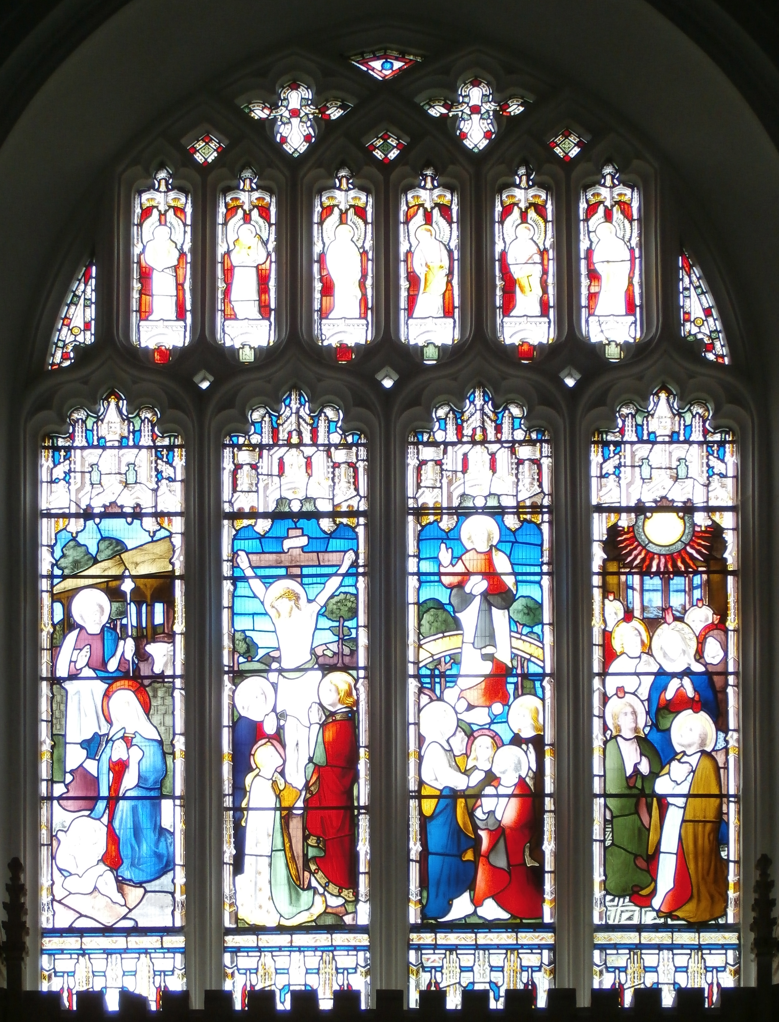 East window of St Hieritha's Church, Chittlehampton, Devon. A brass plaque in the church (in June 2014 loose with 2 others in the mezzanine of the West Tower) is inscribed: "To the glory of God and in memory of William Norton Barry of Castle Cor Co. Cork, Ireland, who died January 23 AD 1871 aged 57. This east window is dedicated by his only daughter Elizabeth and her husband John Baring Short of Hudscott"